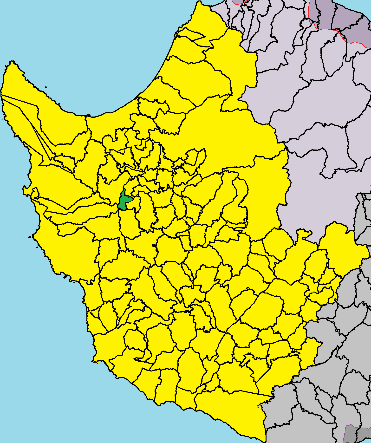 Pano Akourdaleia in Paphos District.